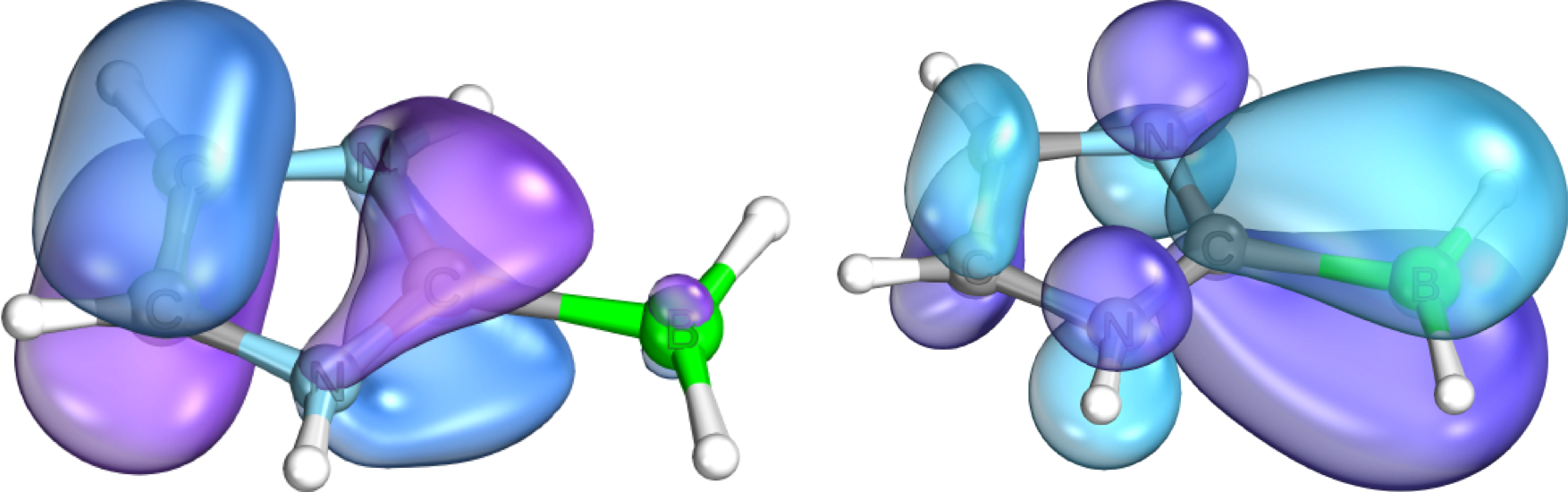 NOCV orbitals for bh2 - nhc interaction generated in ORCA